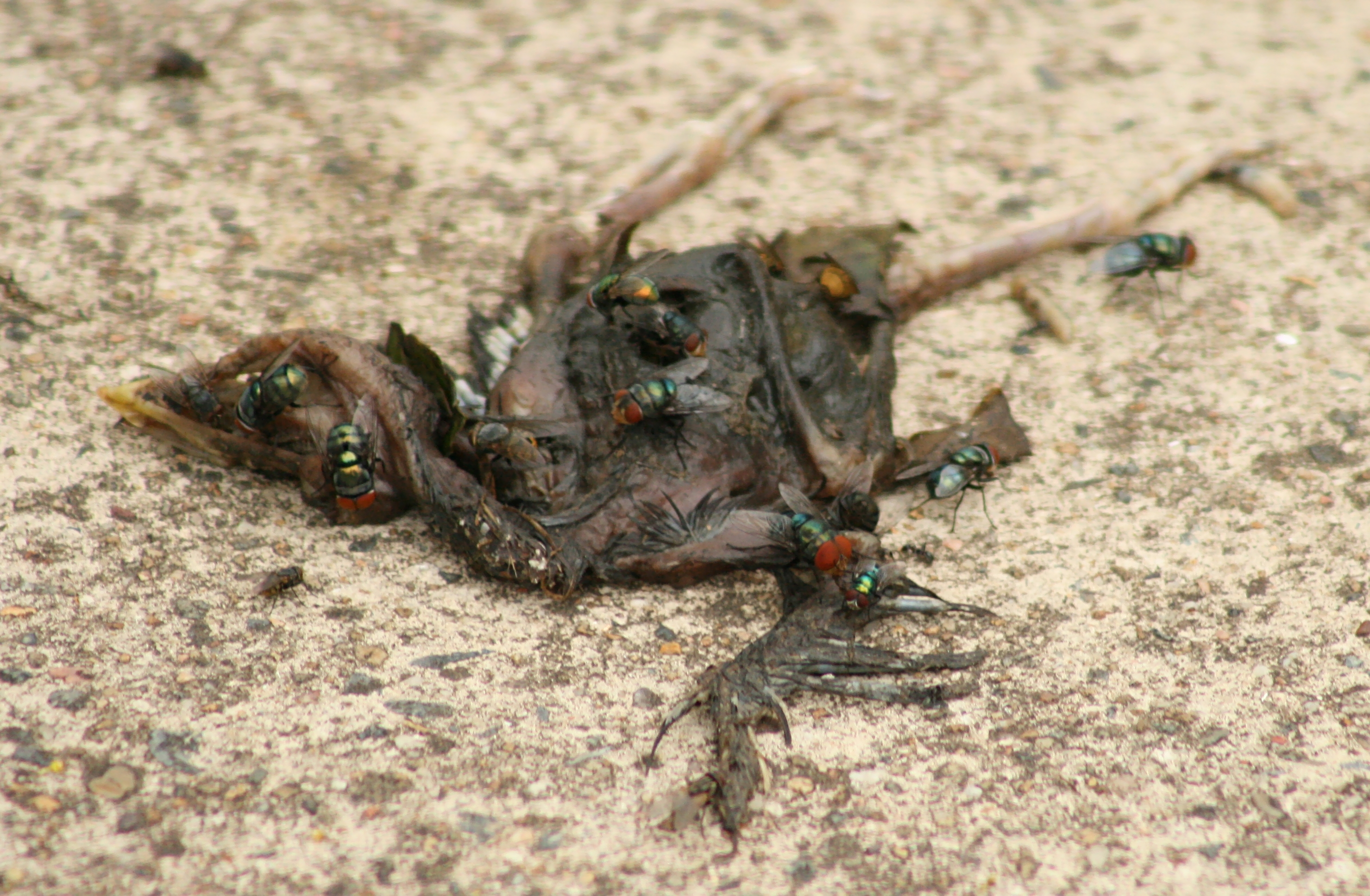 Blow flies (chrysomya megacephala) on a dead baby bird in Sydney, New South Wales (NSW), Australia.